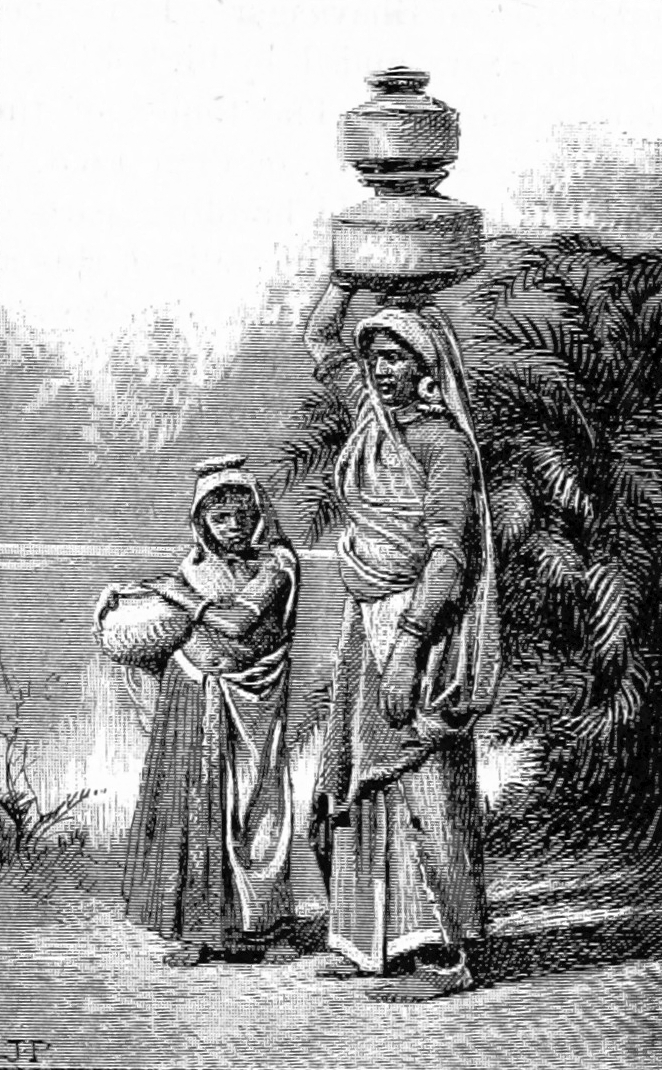 Image taken from: Title: "Picturesque India. A handbook for European travellers, etc. [With maps.]" Author: CAINE, William Sproston. Shelfmark: "British Library HMNTS 010057.ee.7.", "British Library OC ORW.1986.a.2996" Page: 119 Place of Publishing: London Date of Publishing: 1890 Publisher: G. Routledge & Sons Issuance: monographic Identifier: 000567709 Note: The colours, contrast and appearance of these illustrations are unlikely to be true to life. They are derived from scanned images that have been enhanced for machine interpretation and have been altered from their originals. If you wish to purchase a high quality copy of the page that this image is drawn from, please order it here. Please note that you will need to enter details from the above list - such as the shelfmark, the page, the book's volume and so on - when filling out your order. Explore: Find this item in the British Library catalogue, 'Explore'. Open the page in the British Library's itemViewer (page: 119) Download the PDF for this book Click here to see all the illustrations in this book and click here to browse other illustrations published in books in the same year. Please click on the tags shown on the right-hand side for other ways to browse the illustrations.